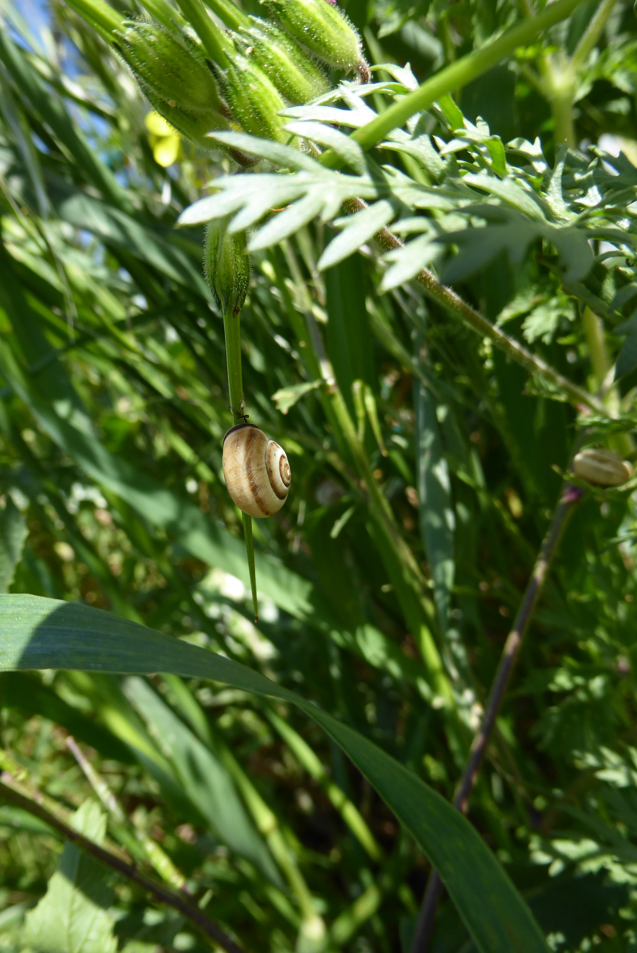 Savion blossoms